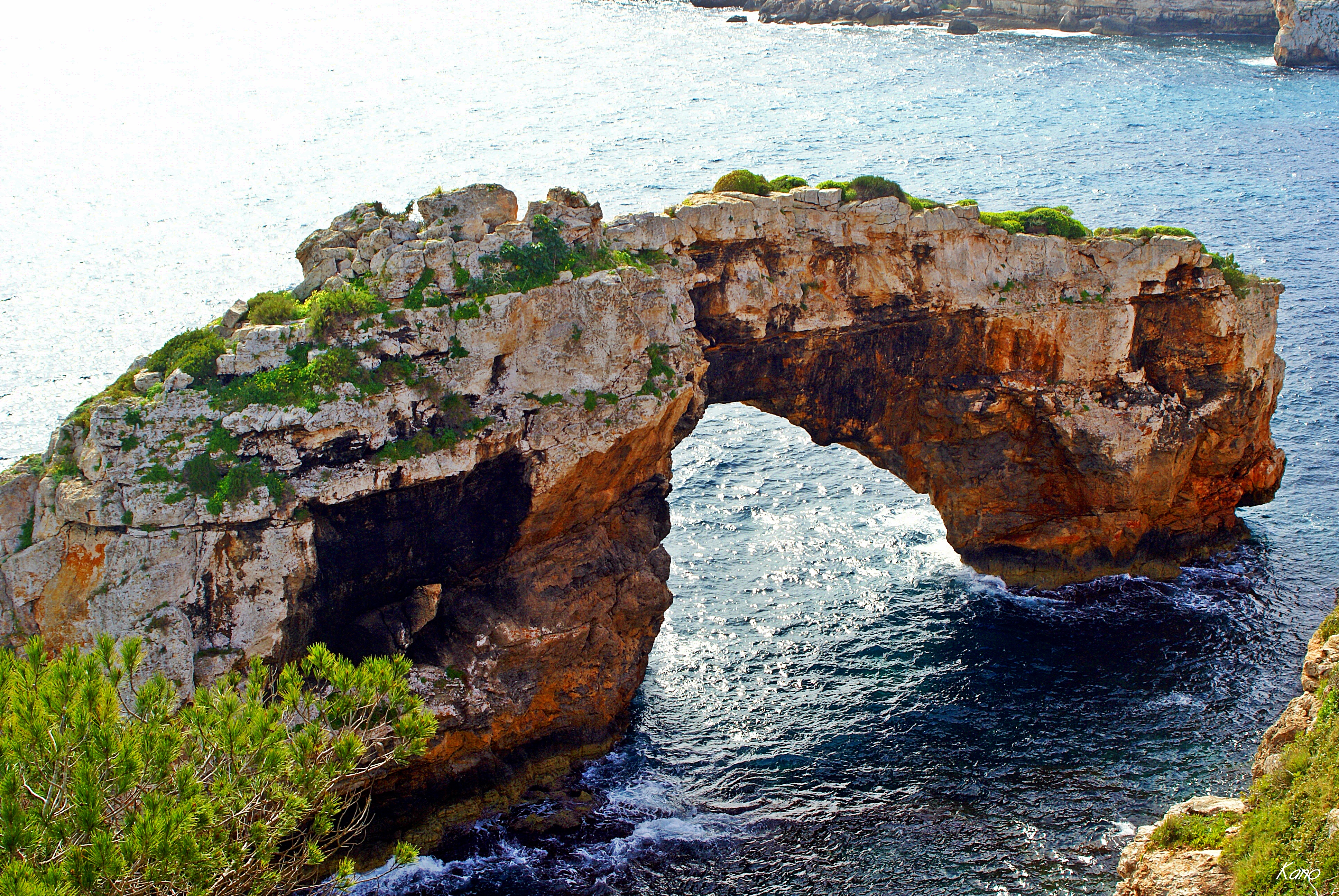 Es Pontàs — Mallorca, the Balearic Islands. 06